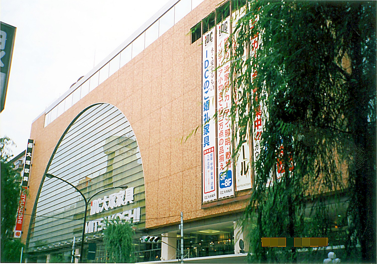 Mitsukoshi and Otsuka furniture store showroom which there was in Kichijoji, Tokyo.